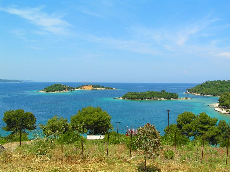 Ksamil islets as seen from the near by hills (Albania at the Ioanian Sea)